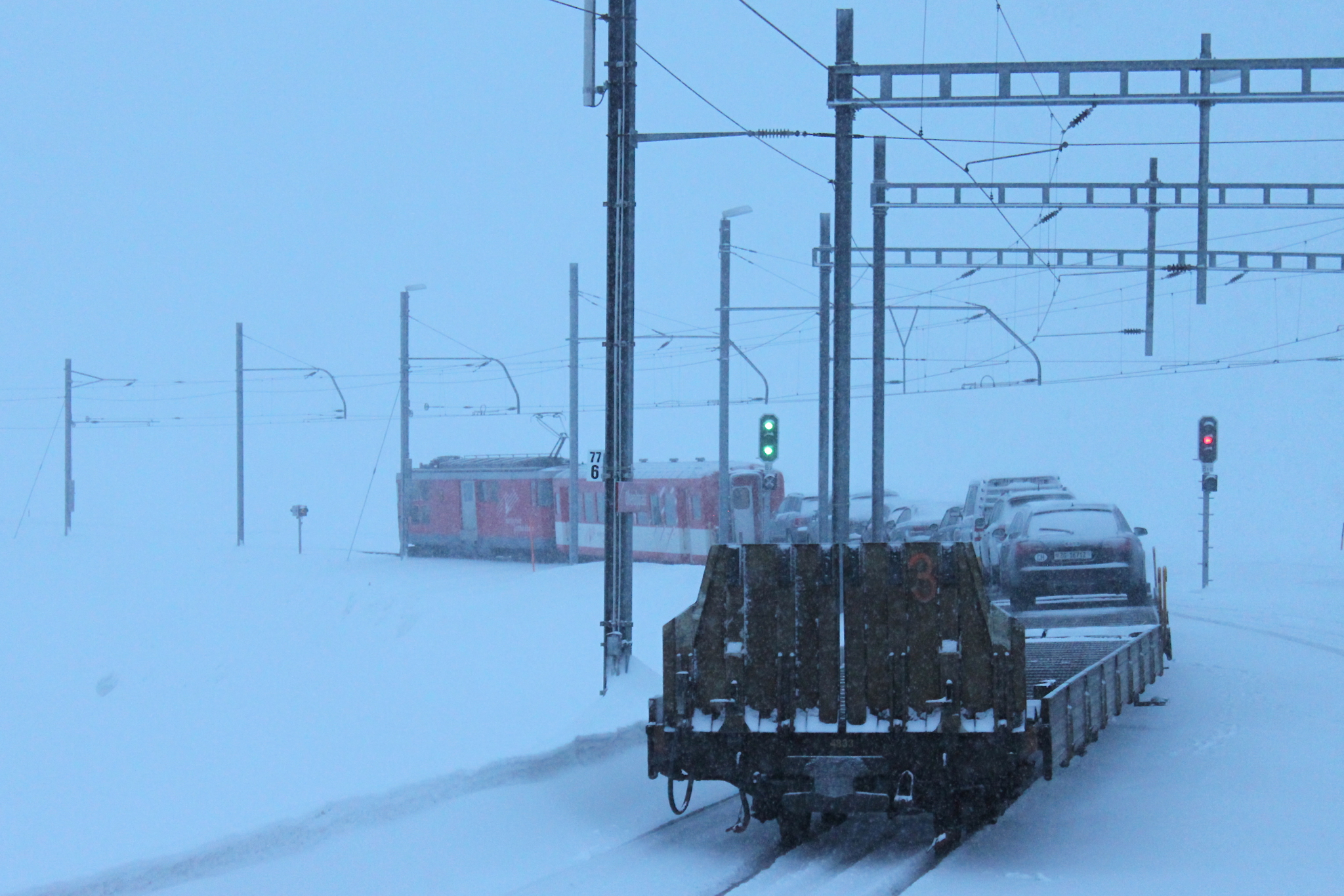 Oberal pass car shuttle leaving Oberalppass train station. Sklv 4833 is at the rear